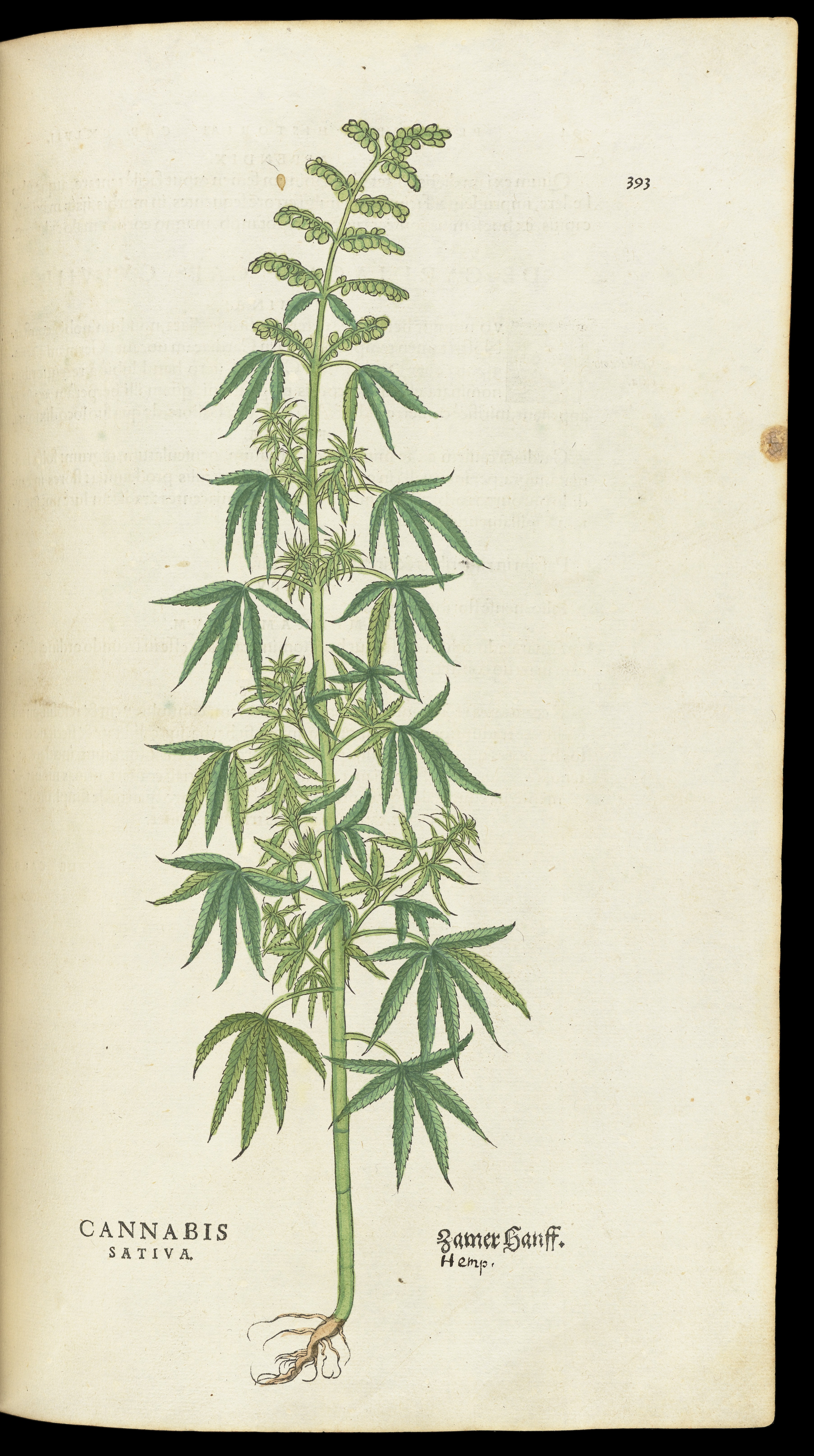 Cannabis plant from 'De historia stirpivm commentarii insignes ... ' Rare Books Keywords: Botany; Plants, Medicinal